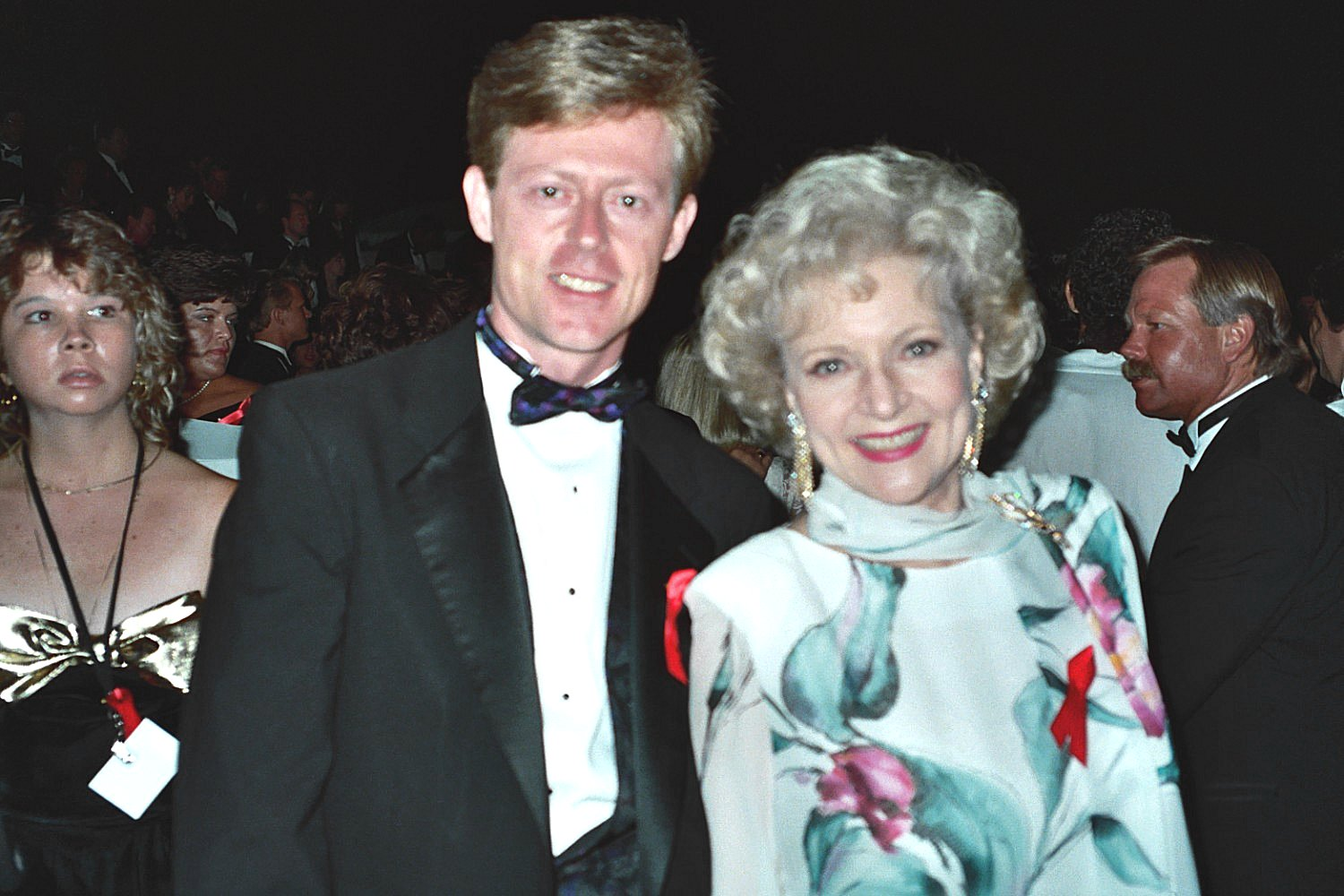 1992 Emmy Awards. Scanned from the original 35MM film negative.